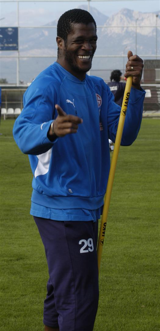 Djehoua with Antalyaspor kit